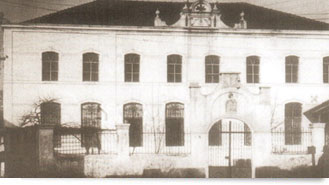 Synagogue Bet Jakov in Skopje, Macedonia